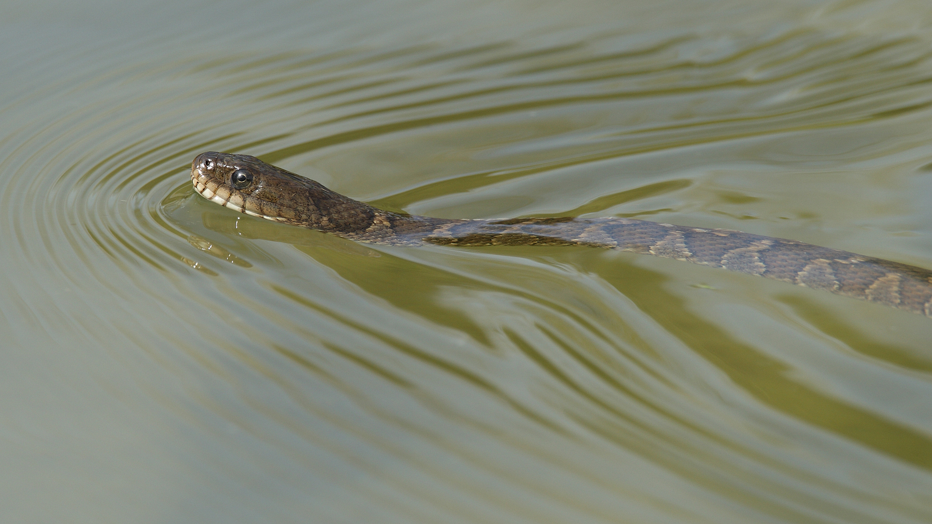 Northern Water Snake -- Sandbanks Provincial Park, Ontario, Canada -- 2008 May